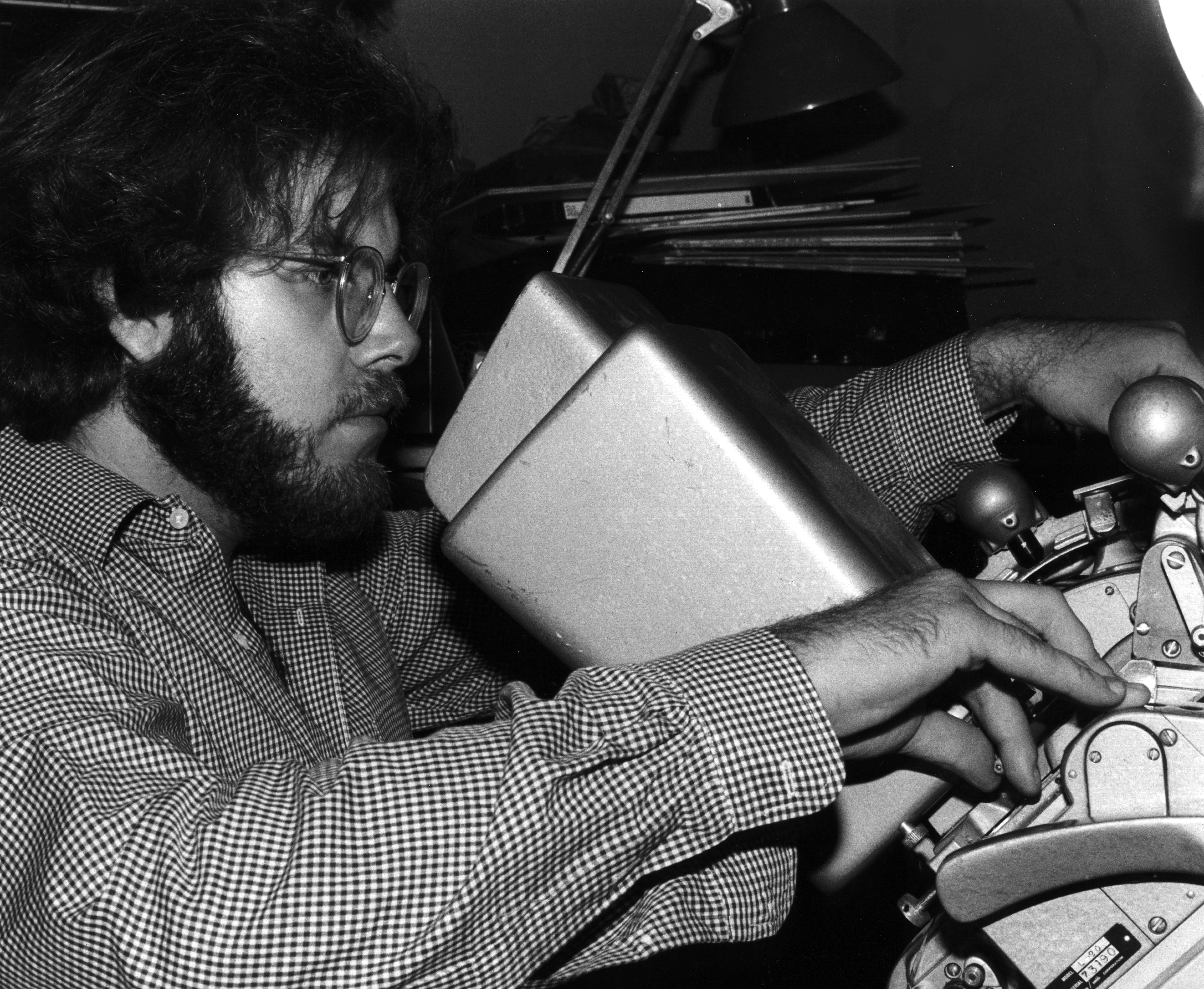 Filmmaker Brad Mays editing a scene from his first feature film "Stage Fright." Although most of the film was cut on an eight plate Steenbeck flatbed, here Mays is working on an upright Moviola, which he kept in his New York apartment.